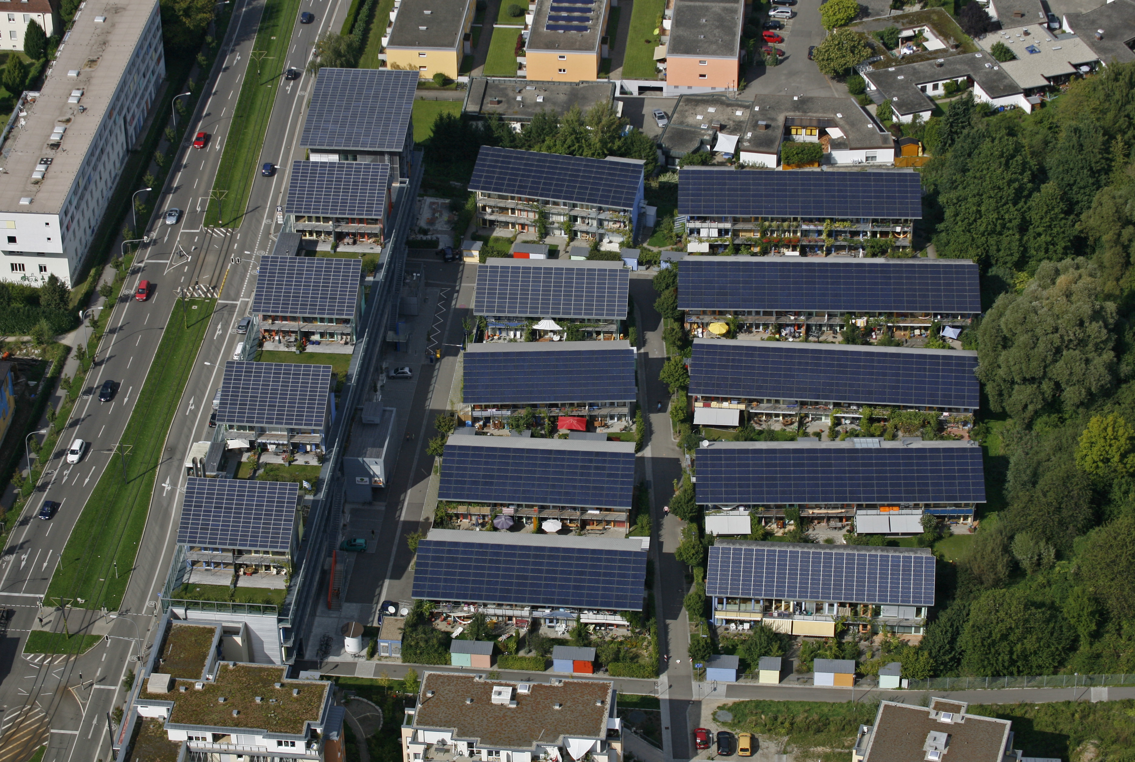 Bird's eye view of the Solar Settlement